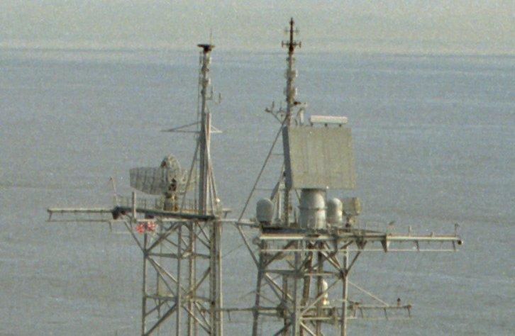 View of the AN/SPS-40 (left) and AN/SPS-48 radars aboard the U.S. Navy guided missile cruiser USS Truxtun (CGN-35), while she was underway in the Pacific Ocean off San Diego (USA) on 3 January 1989.